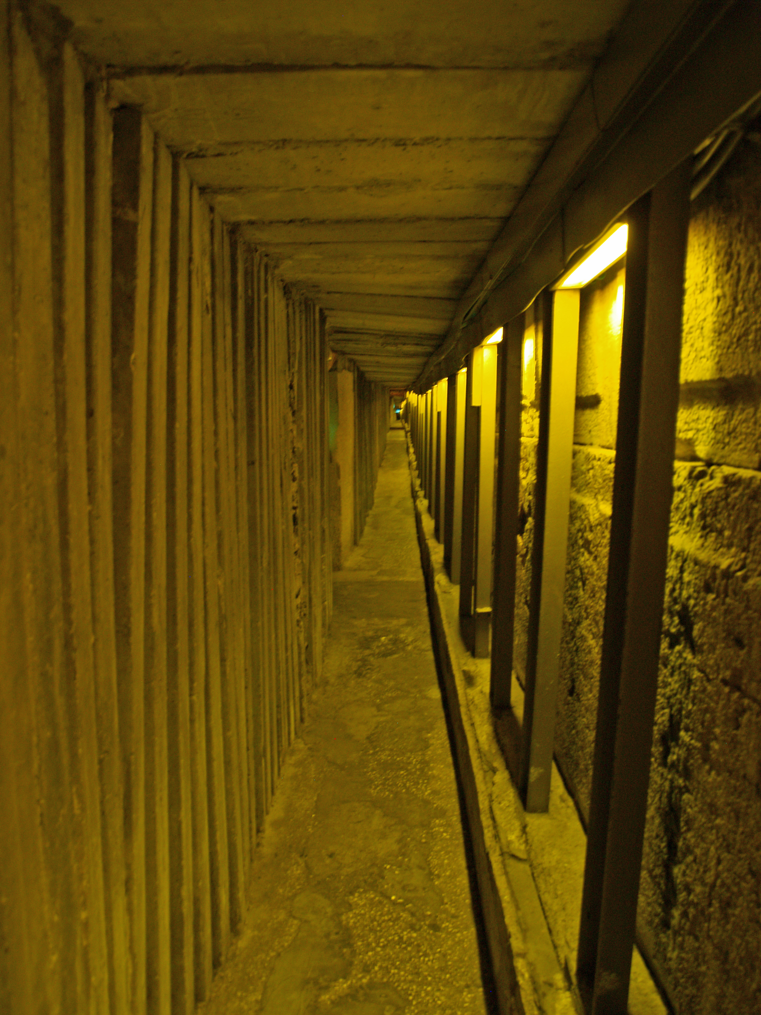 Inside the Western Wall tunnel in Jerusalem